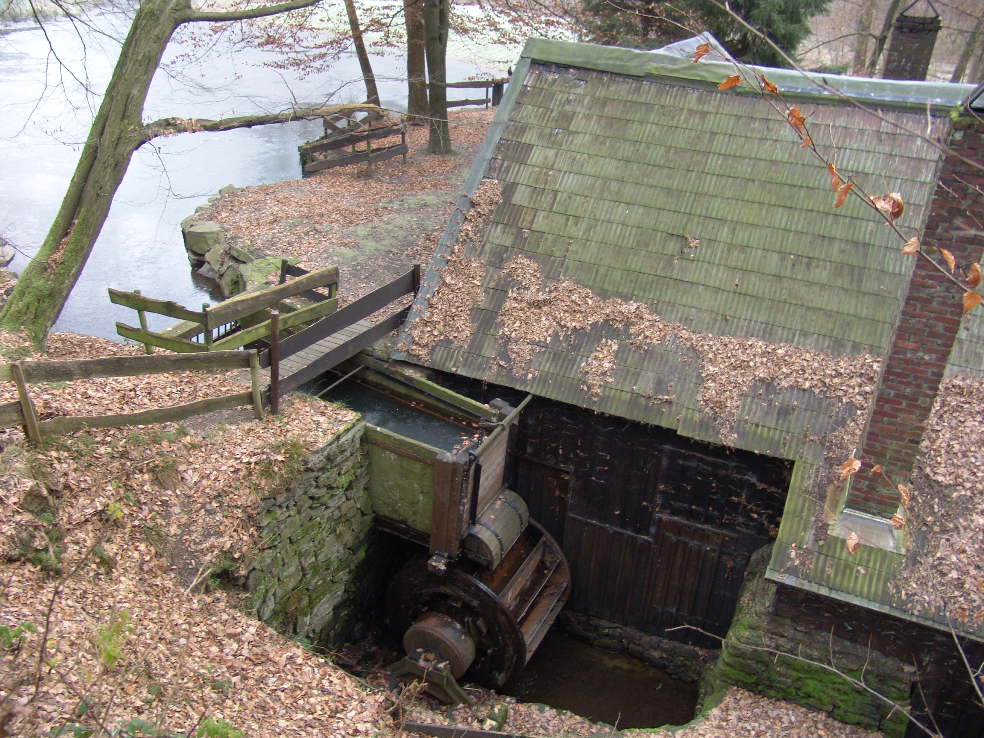 The Hilbertshammer at the Leyerbach in Remscheid